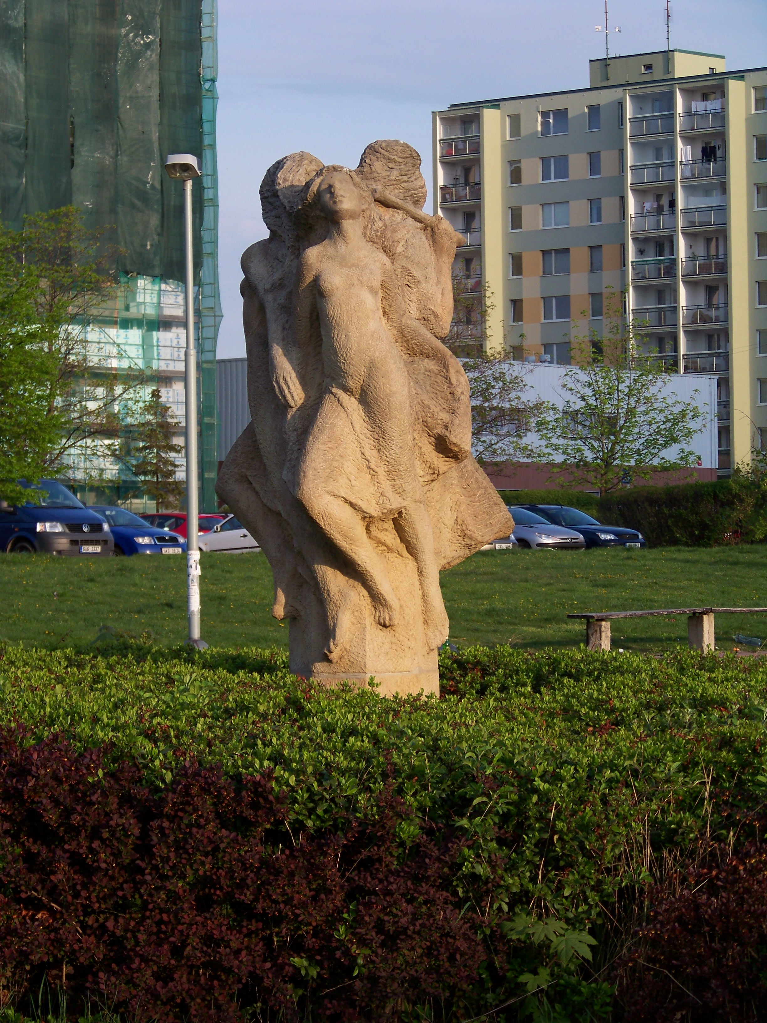 Háje, Prague, the Czech Republic. Květnového vítězství and Shulhoffova streets, a sculpture "Juvenility" by Jan Bartoš in front of the school.